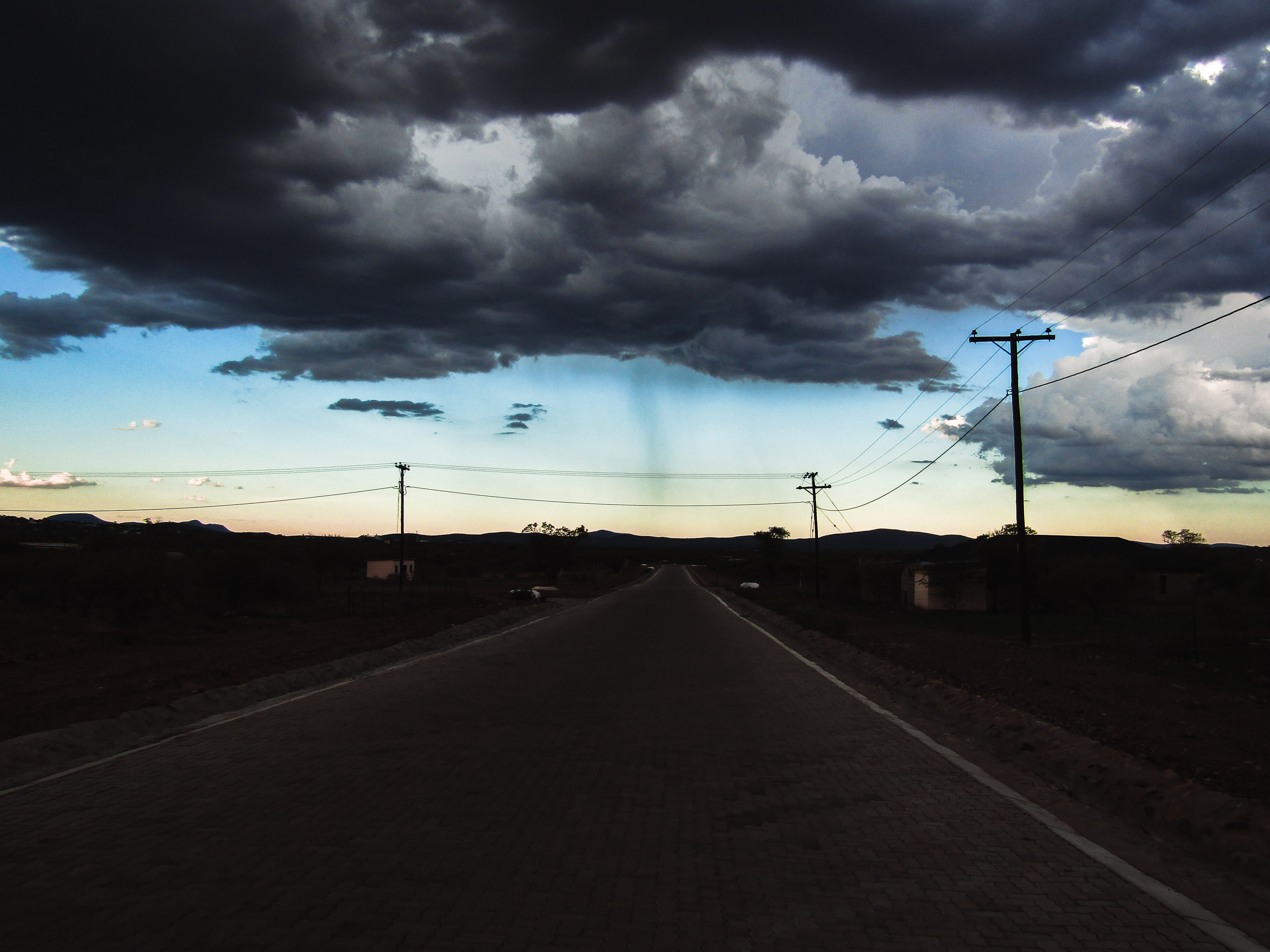 Perfect landscape, you combine the road and the clouds you're sure to come out with a perfect landscape. The rain clouds add depth to the picture. The was shot at Ramotswa, at the new settlement Magope, just before it began to shower This is an image with the theme "Africa on the Move or Transport" from: Botswana